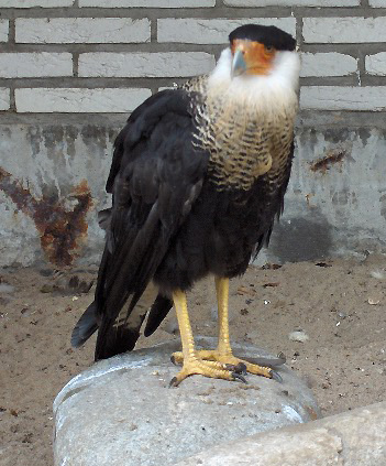 Species Caracara cheriway Family Falconidae